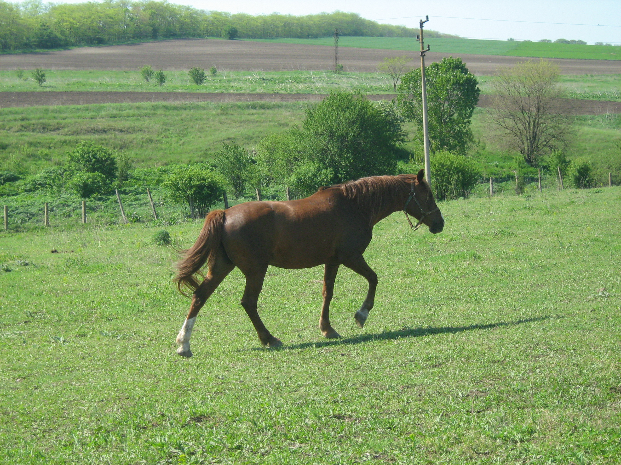 Pleven horse